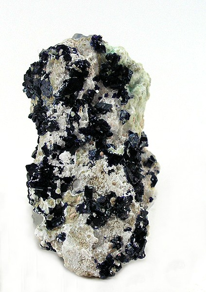 Henmilite Locality: Fuka mine, Bitchu-cho (Bicchu-cho), Takahashi, Okayama Prefecture, Chugoku Region, Honshu Island, Japan (Locality at ) Size: miniature, 4.5 x 2.7 x 2.3 cm Henmilite Henmilite is a beautiful copper borate species with vibrant purple color, and this find to me still remains one of the great discoveries of the past decade in terms of relevance to the collector of beautiful rarities. This is an oustanding specimen from a major find of about 4 years ago, at an old classic locality where this species had first been described. This find produced most of the best known specimens to date, and this is a great miniature representative of this quality. Crystals reach 4 mm here, but most are closer to 2mm.